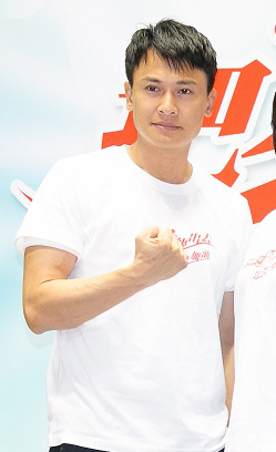 Jeff Wang at a fundraising event for 2014 Kaohsiung gas explosions